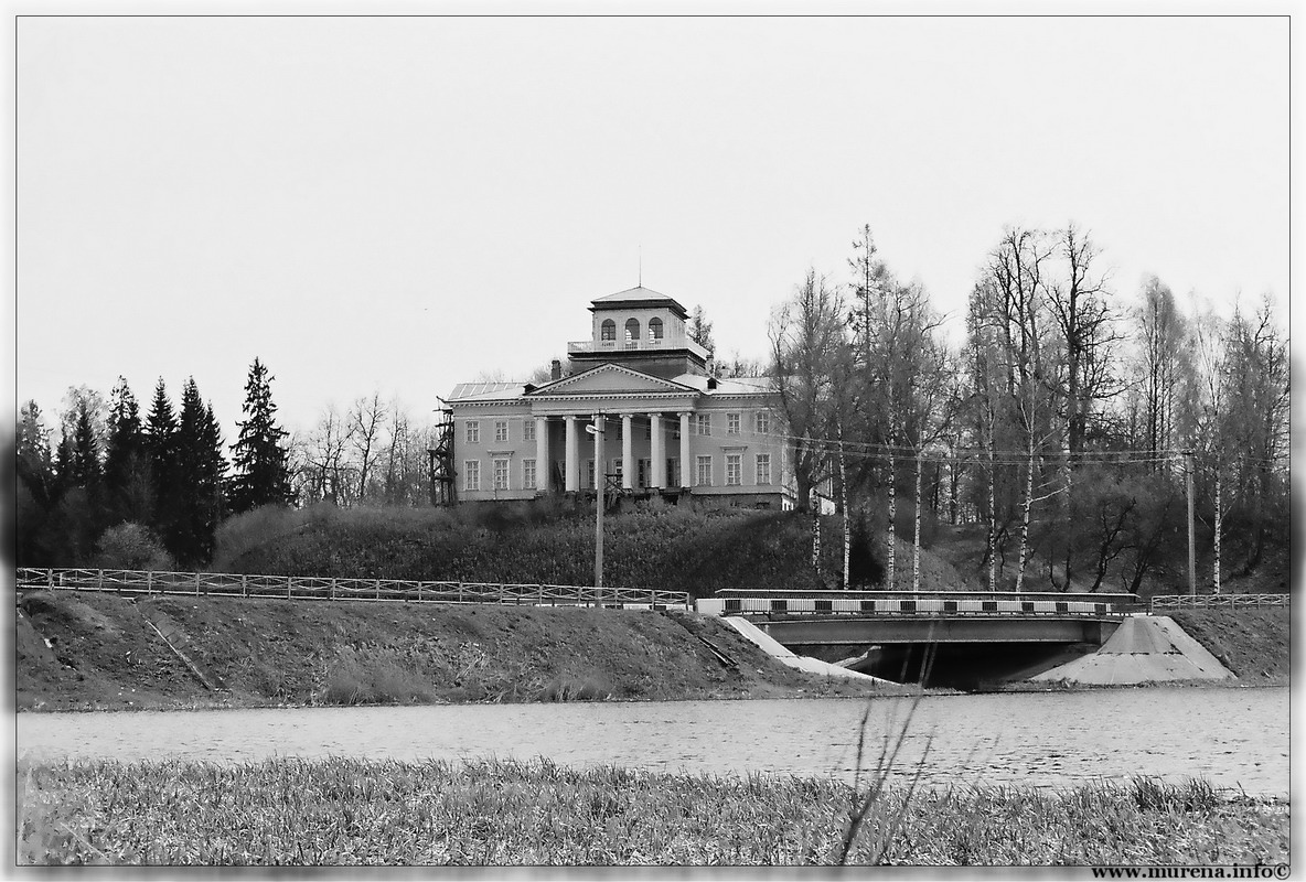 Rozhdestveno